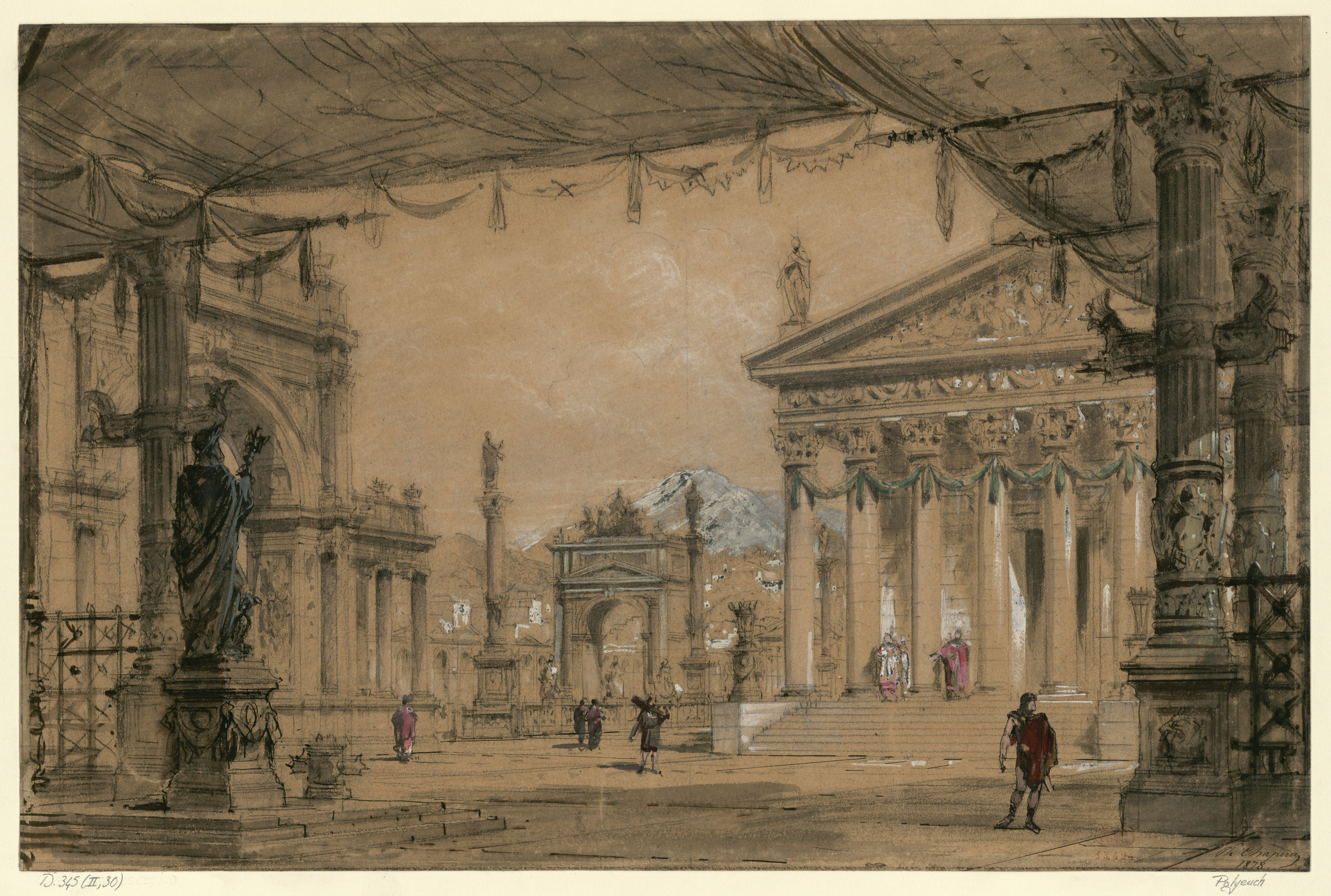 Set design sketch for Act 3, scene 2, of Charles Gounod's opera Polyeucte, as first performed by the Paris Opera at the Palais Garnier on 7 October 1878